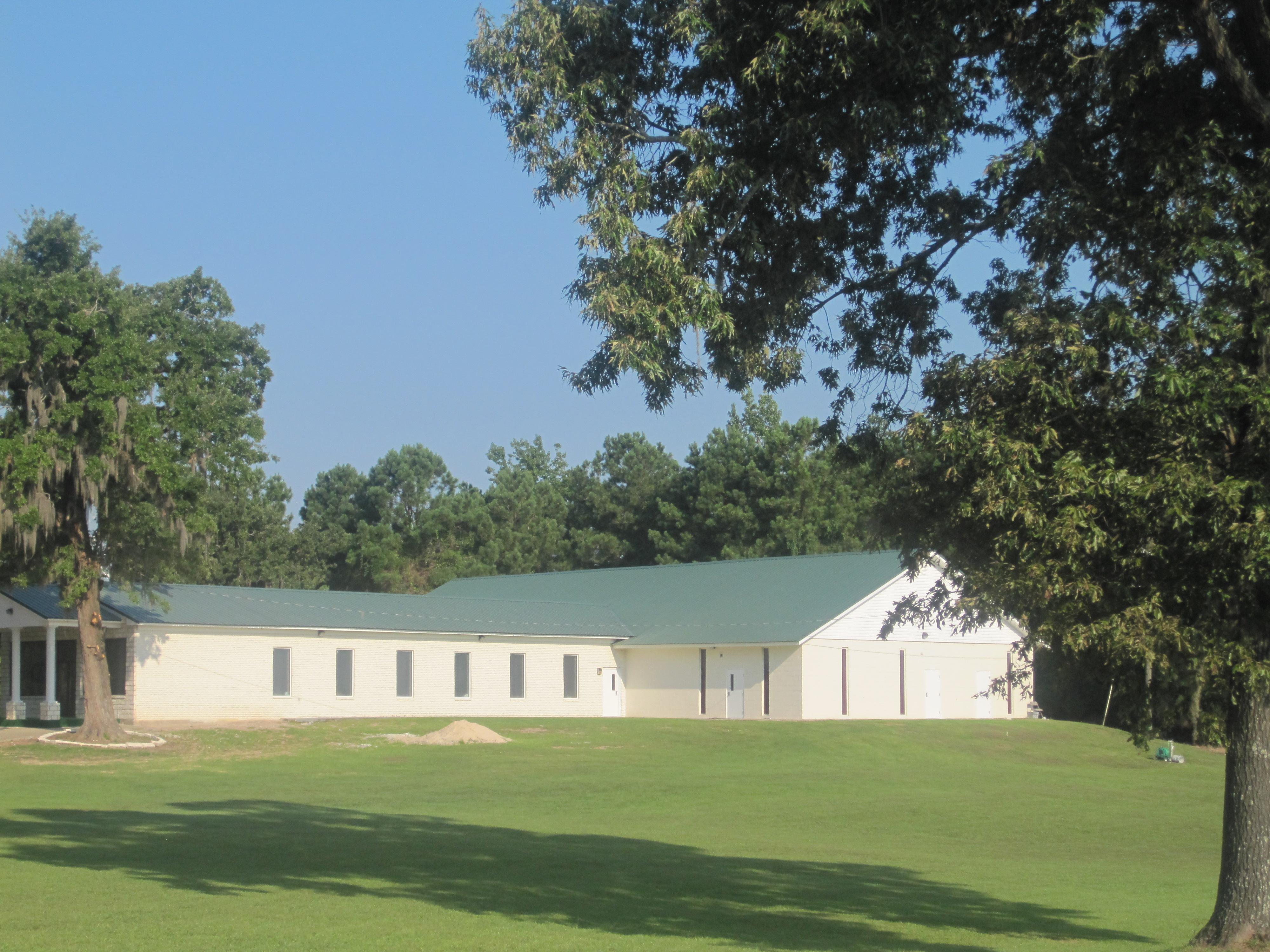 Evergreen Missionary Baptist Church in Winn Parish, LA